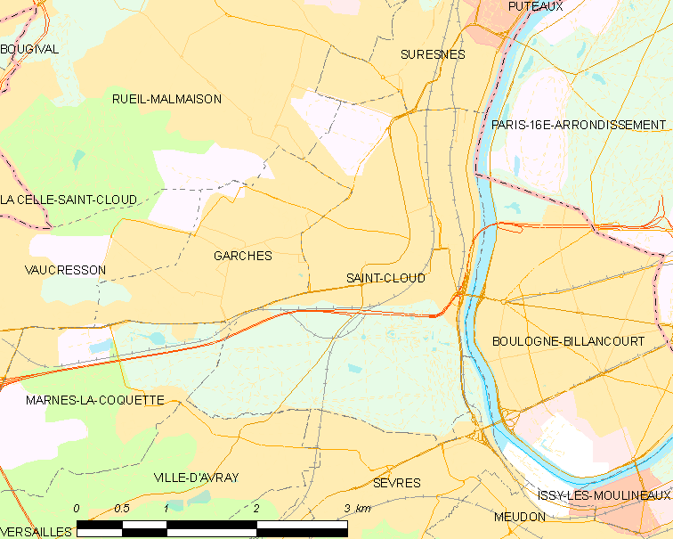 Map of French municipality Saint-Cloud